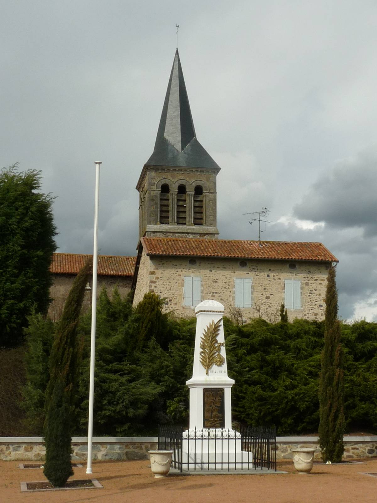 church and war memorial